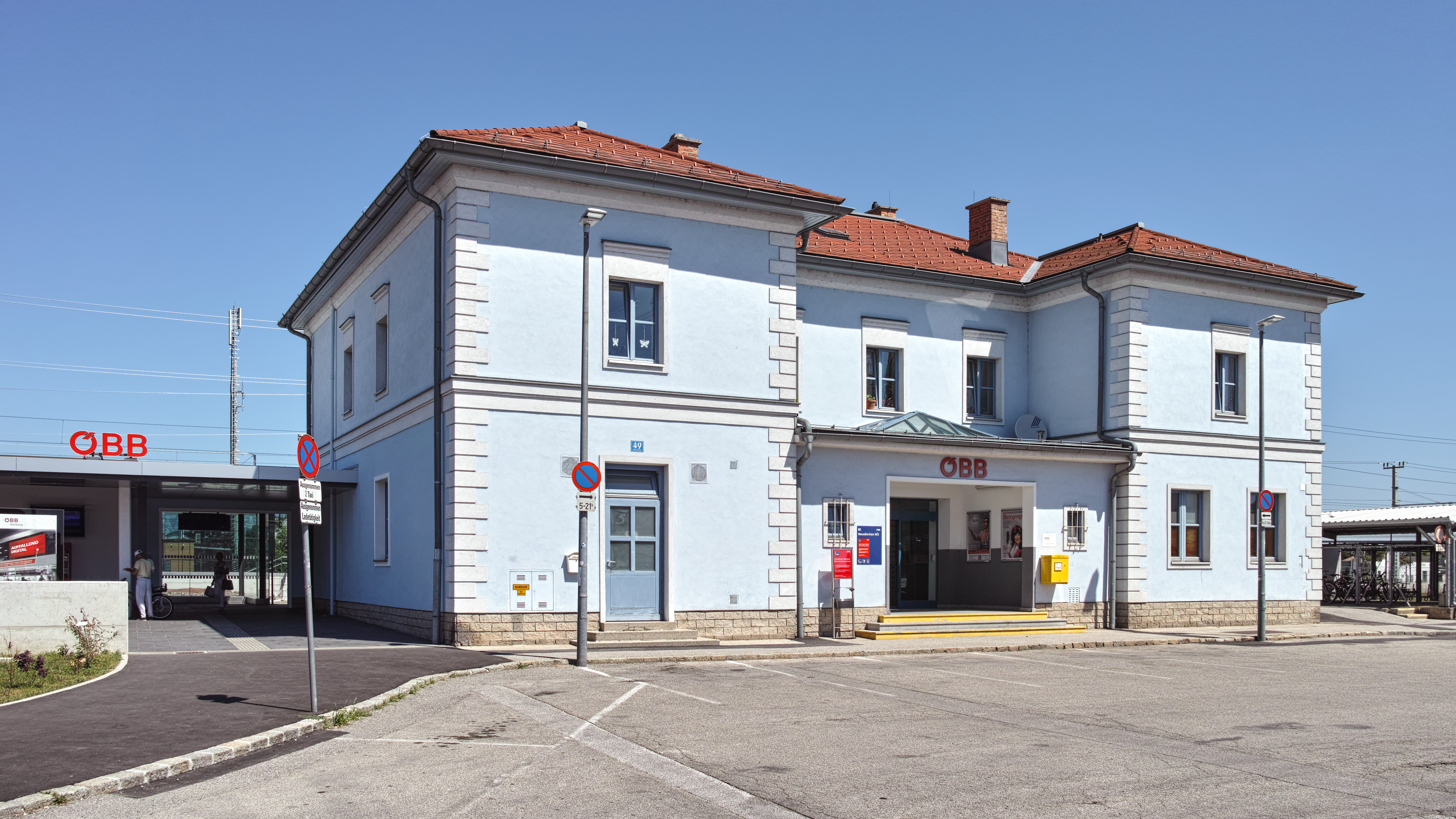 The railwaystation of Neunkirchen, Lower Austria from the south-southwest on July 11th, 2015.